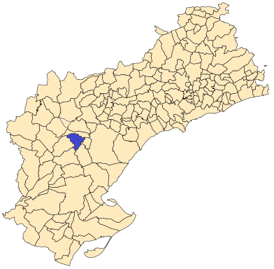 Miravet